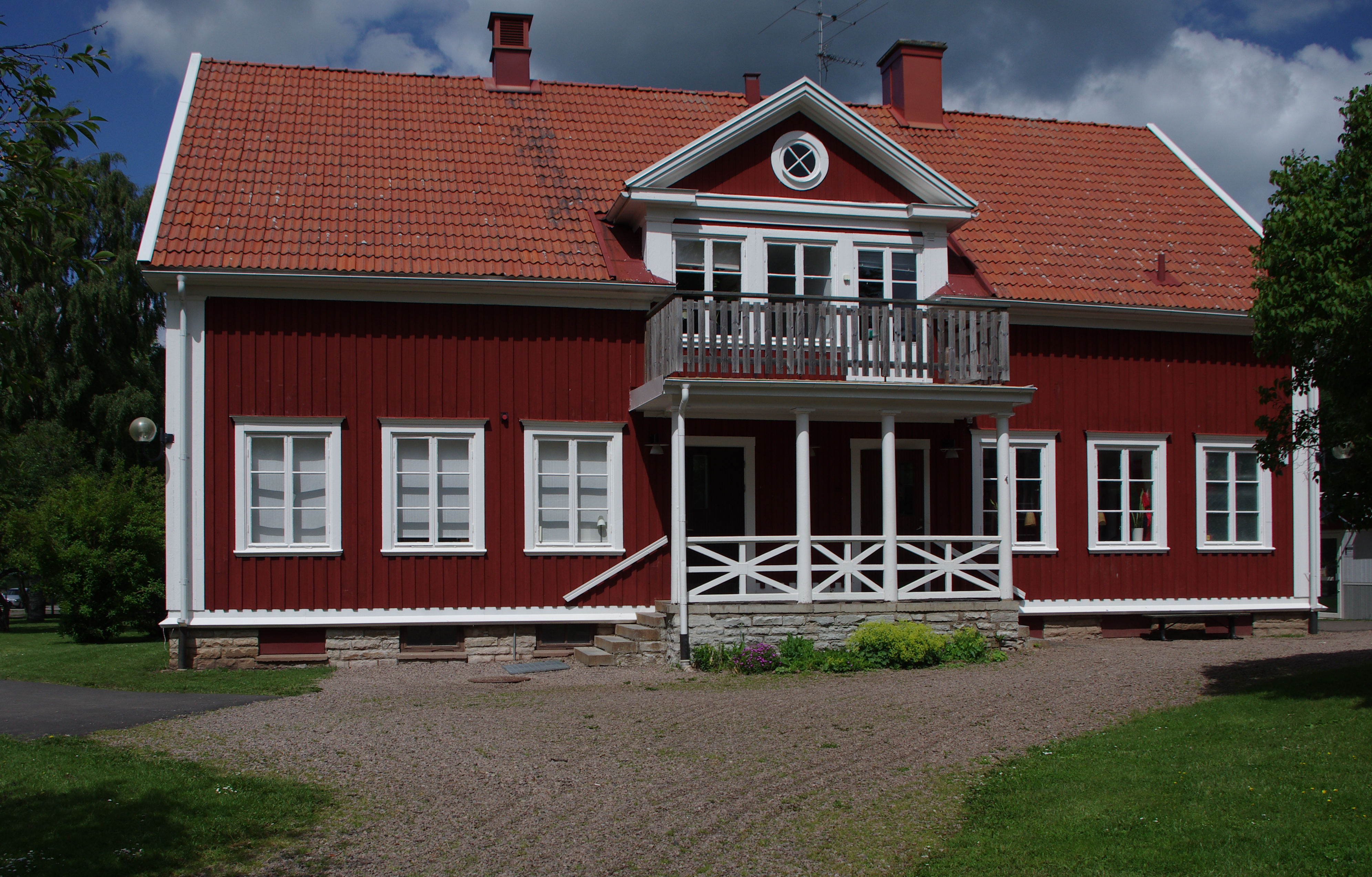 Gudhemsskolan (swedish:School of Gudhem) in Falköping municipality, Sweden